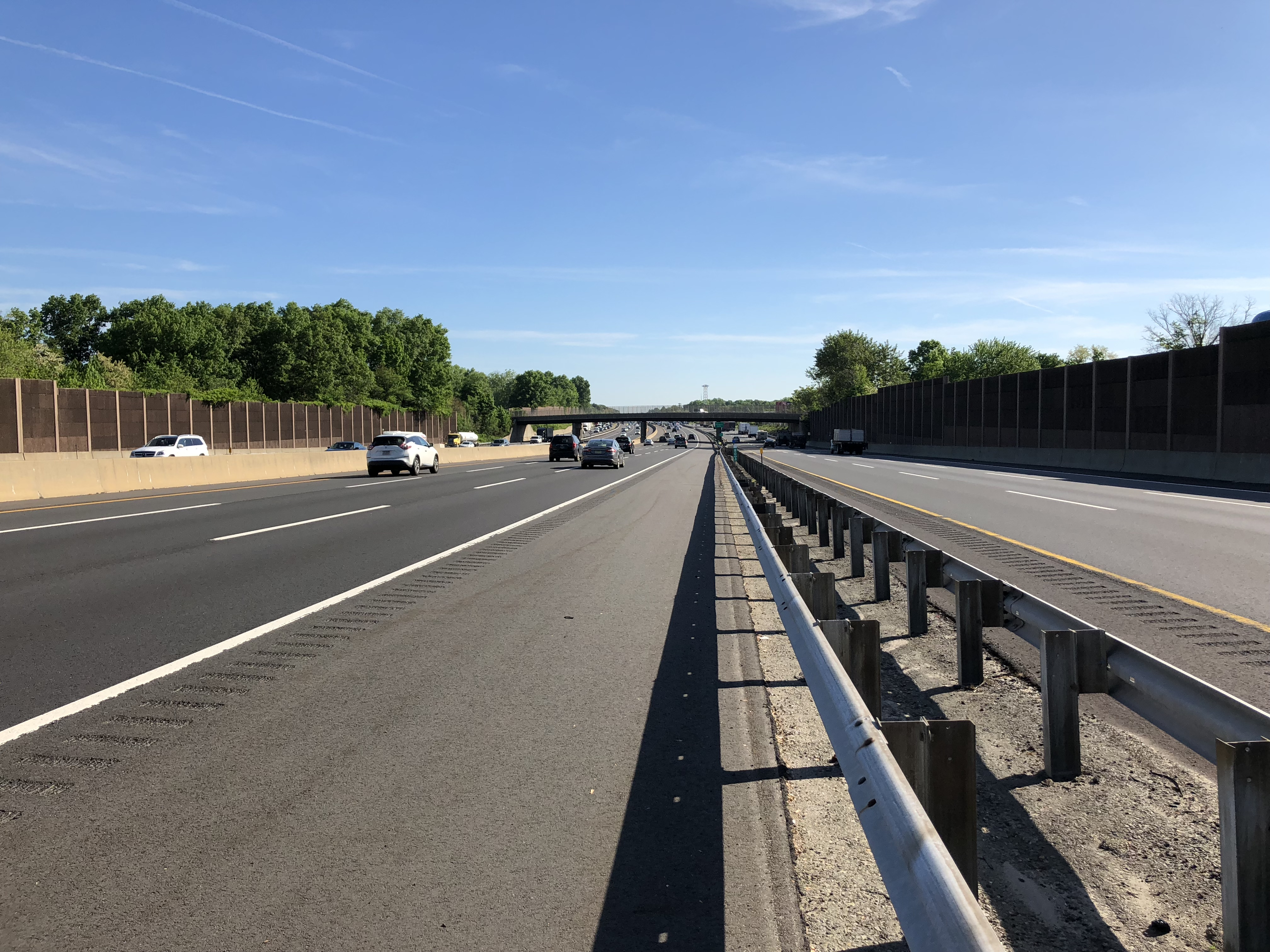 View north along Interstate 95 (New Jersey Turnpike) between Exit 8A and Exit 9 in Milltown, Middlesex County, New Jersey